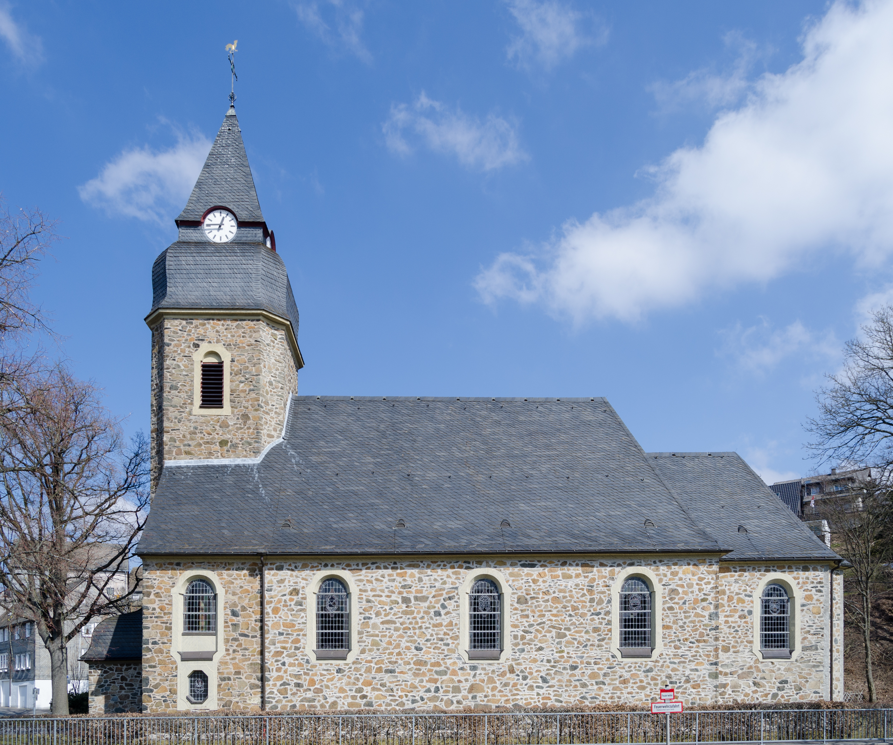 Olsberg (North Rhine-Westphalia, Germany) – district Wiemeringhausen – Catholic Saint Anthony Church – exterior from the south